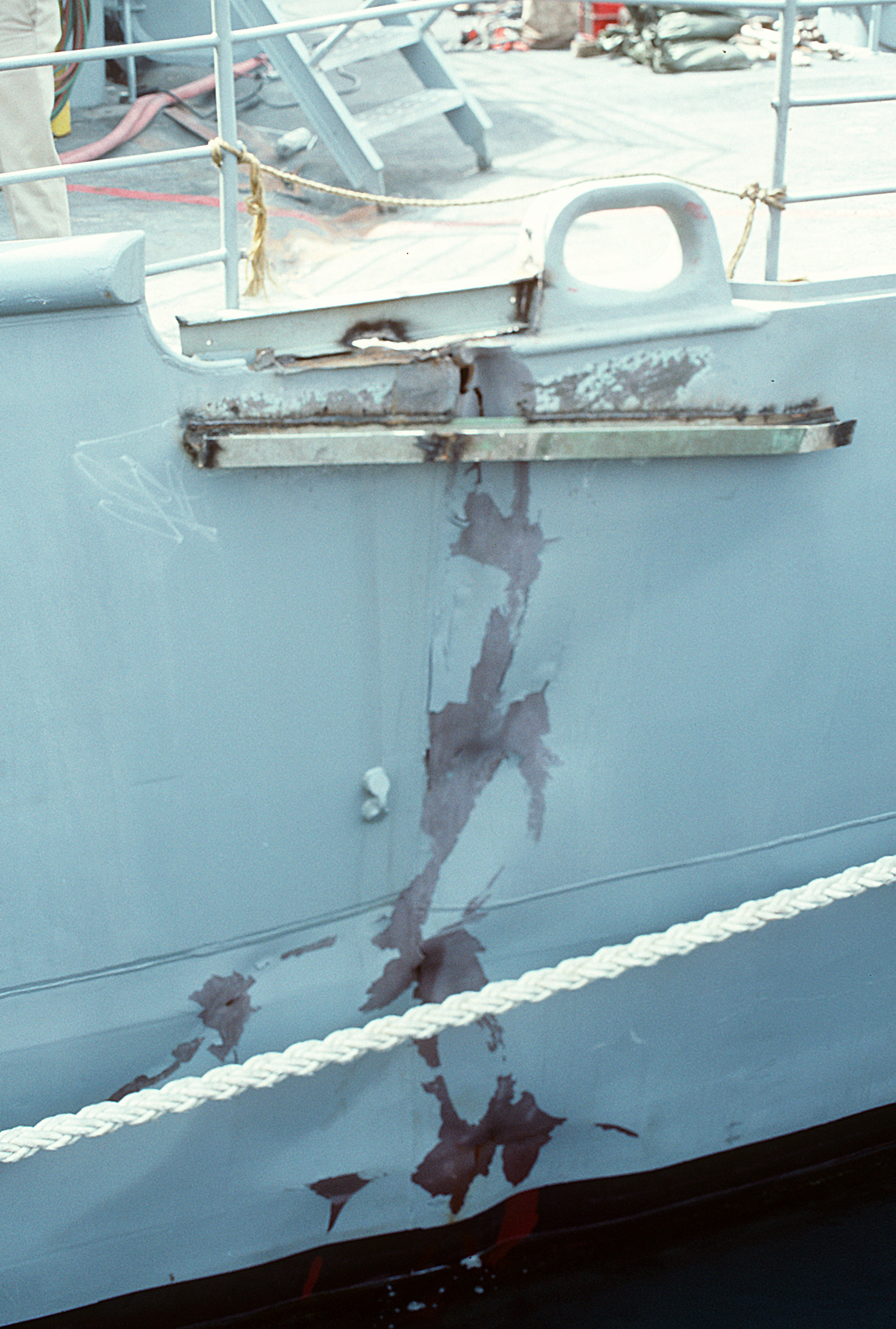 A close-up view of a crack in the hull of the Aegis-guided missile cruiser USS PRINCETON (CG-59), part of the damage sustained when the vessel struck an Iraqi mine while on patrol in the Persian Gulf on February 18th in support of Operation Desert Storm. The incident resulted in the injury of three crew members and also inflicted propeller damage on the ship, however, the Princeton was still able to navigate and operate its weapons systems.